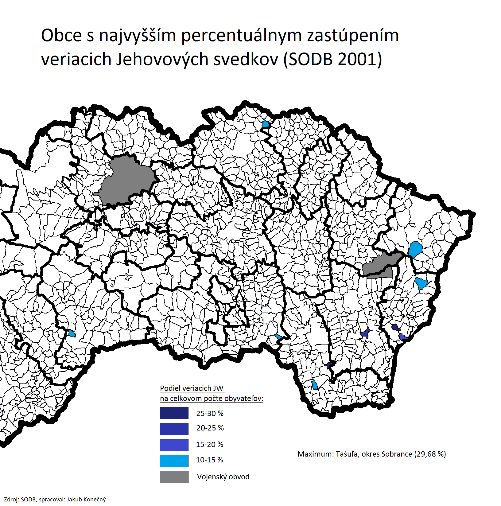 Data from SODB 2001